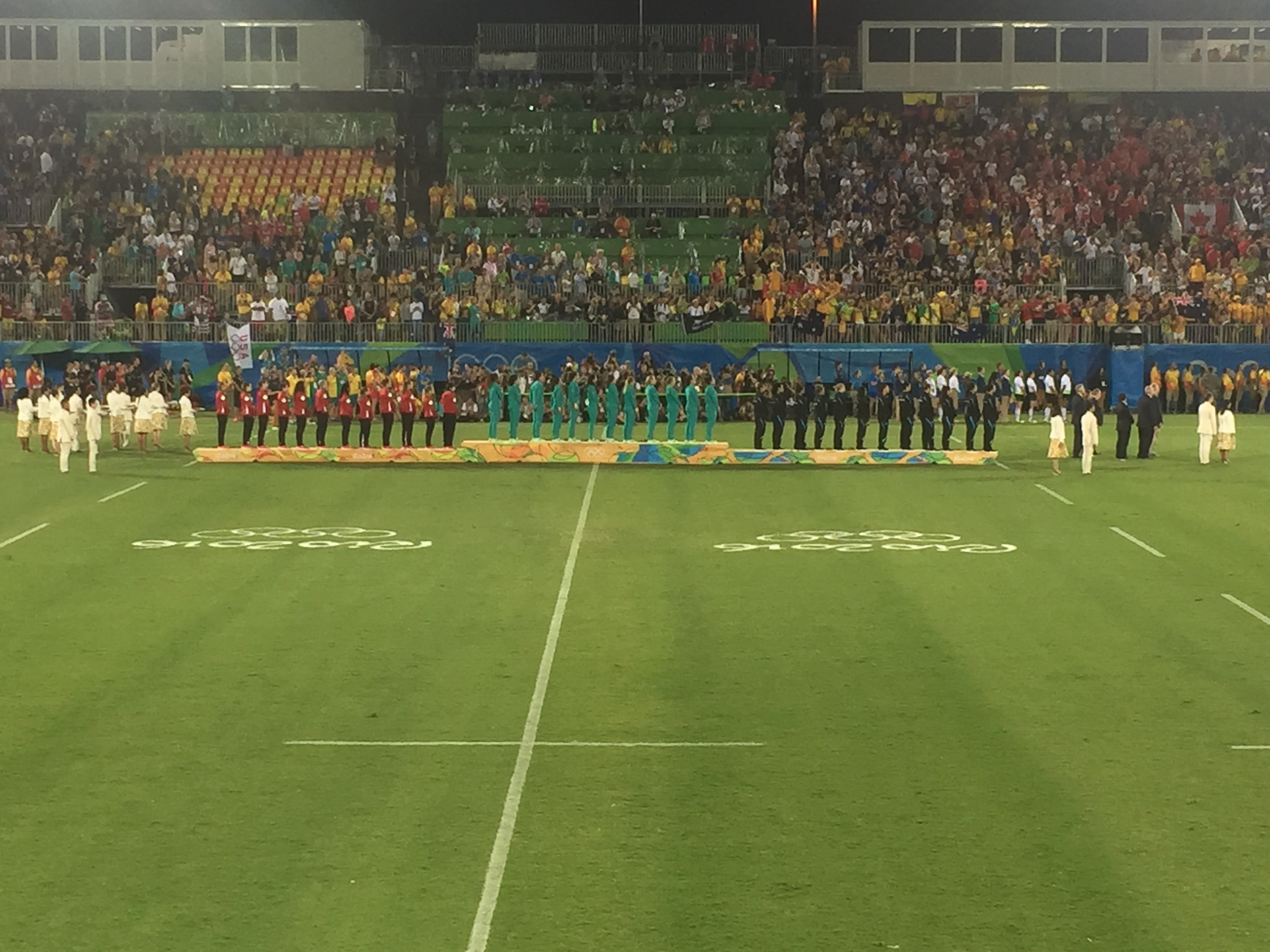 Rio 2016 Olympics - Women's rugby Stevens final